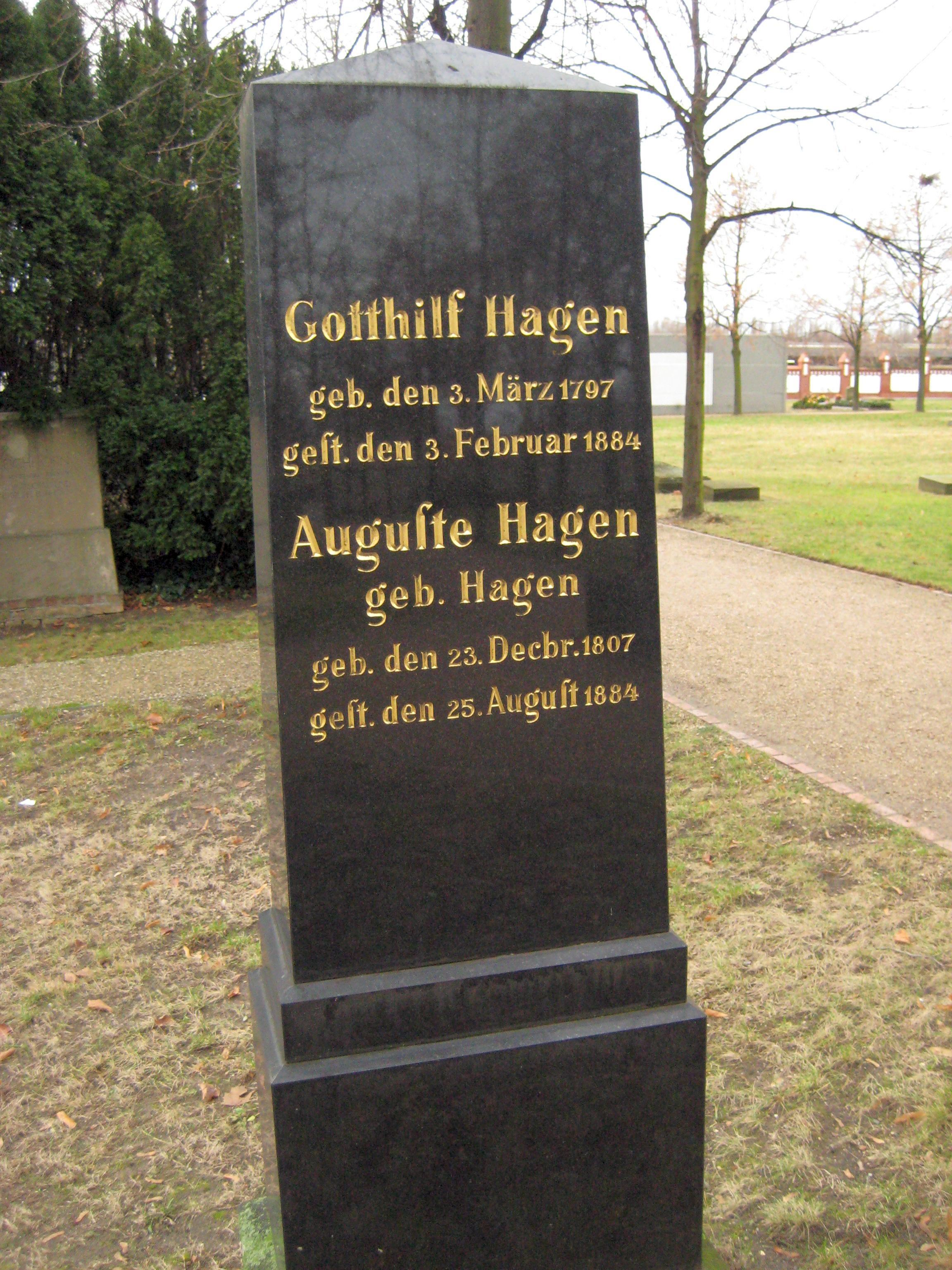 grave of Gotthilf and Auguste Hagen on Invalidenfriedhof cemetery in Berlin (1884)